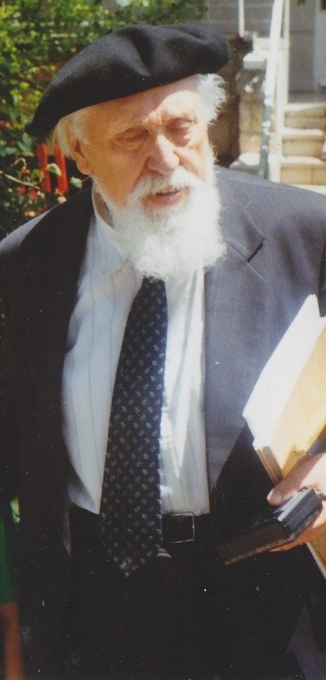 prof Reuven Feuerstein